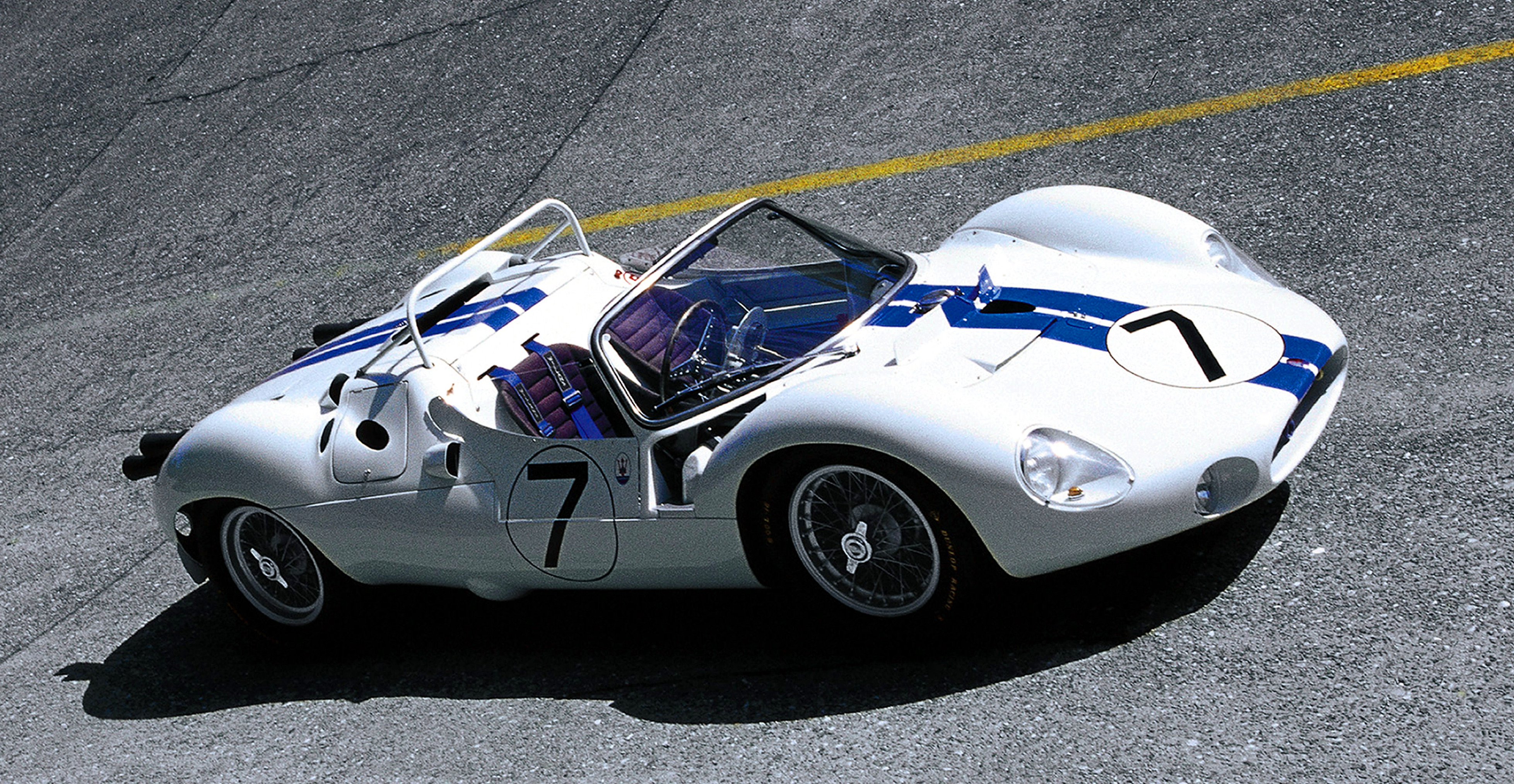 Maserati Tipo 61 Birdcage Dubious. This is a Maserati - but not a Birdcage.